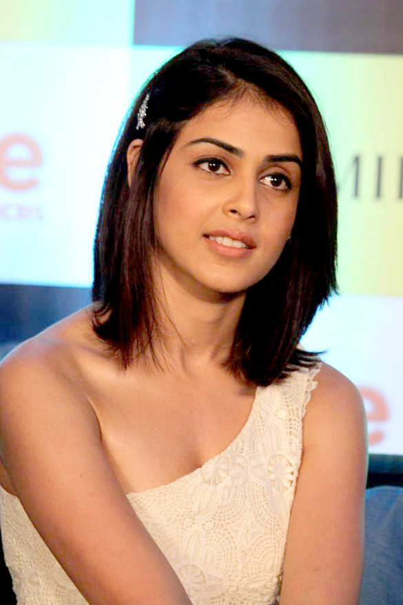 Genelia dsouza love big and cbs press meet